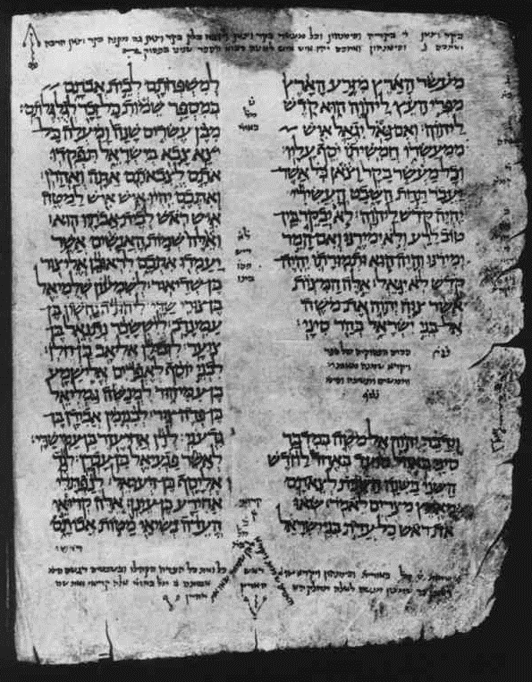 Codex Michigan, X-th century, folio 92b, Lev 32:30 - Num 1:16